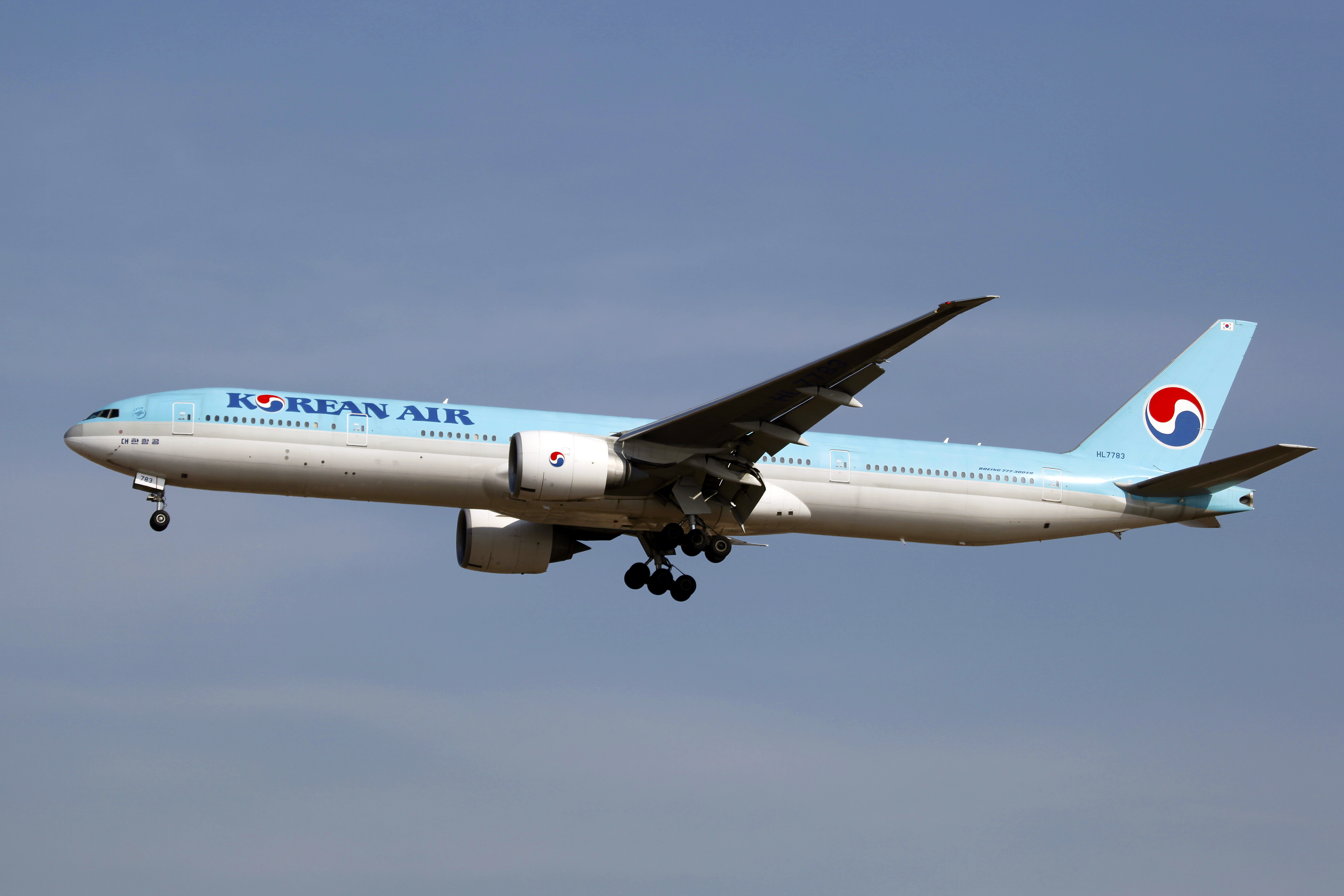 HL7783 | Korean Air Lines | Boeing 777-3B5(ER) | Seoul Incheon International Airport [ICN]